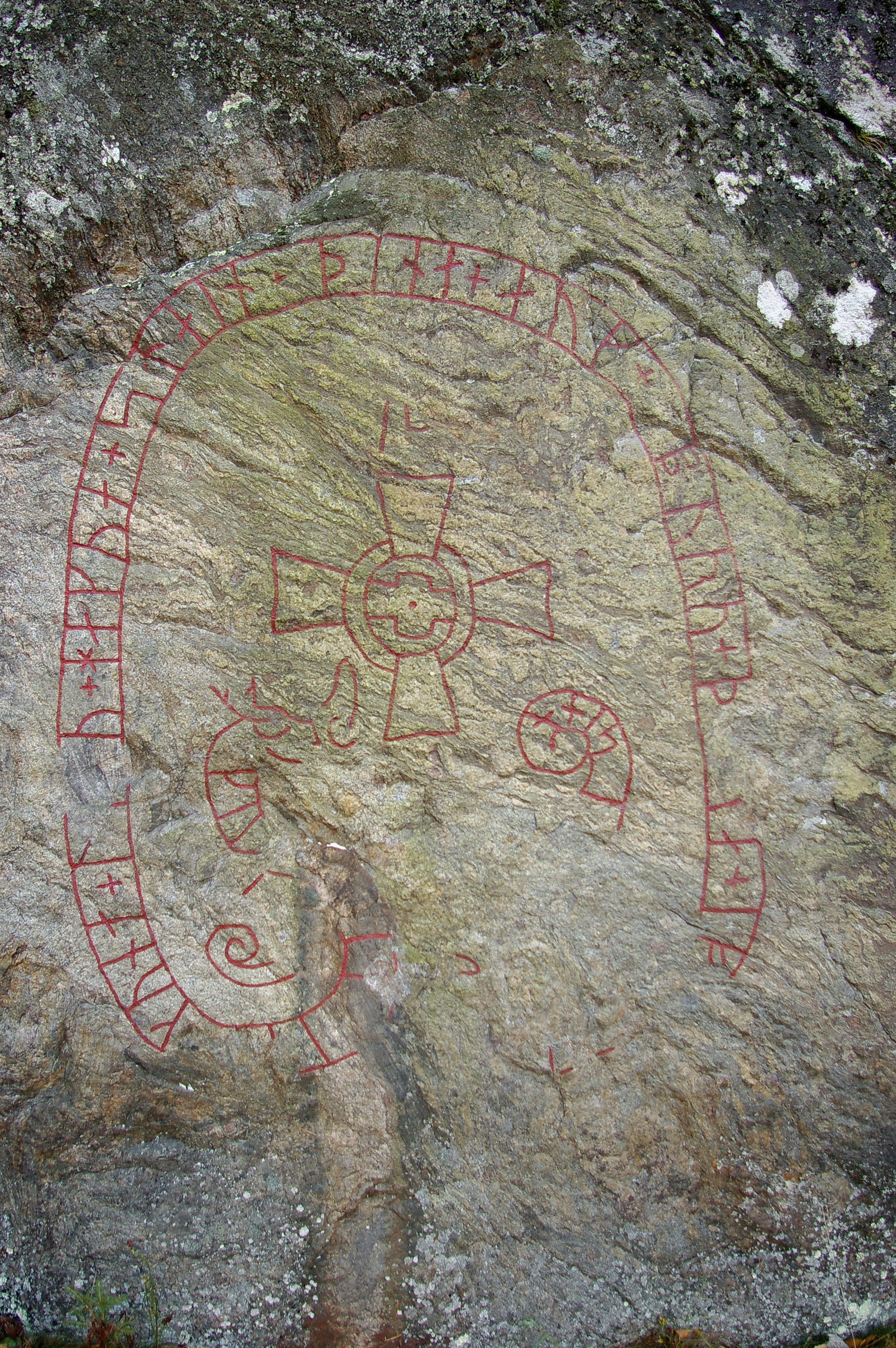 Runic inscription Sö Sb1965;19 from Runmarsvreten, Södermanland, Sweden. English translation of runic text: ... [and] Gunna had this stone and this bridge made in memory of their ...